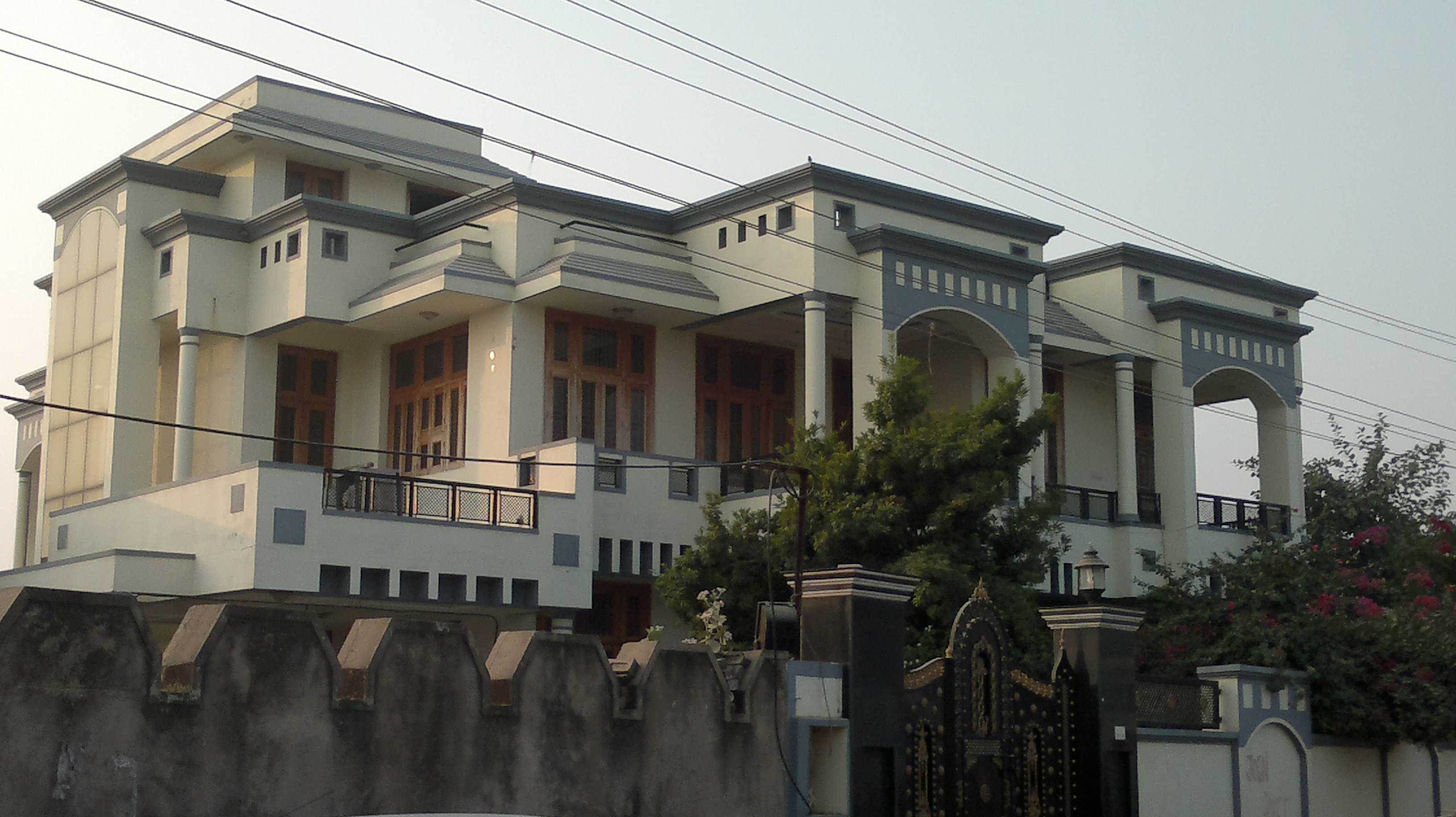 India's pune